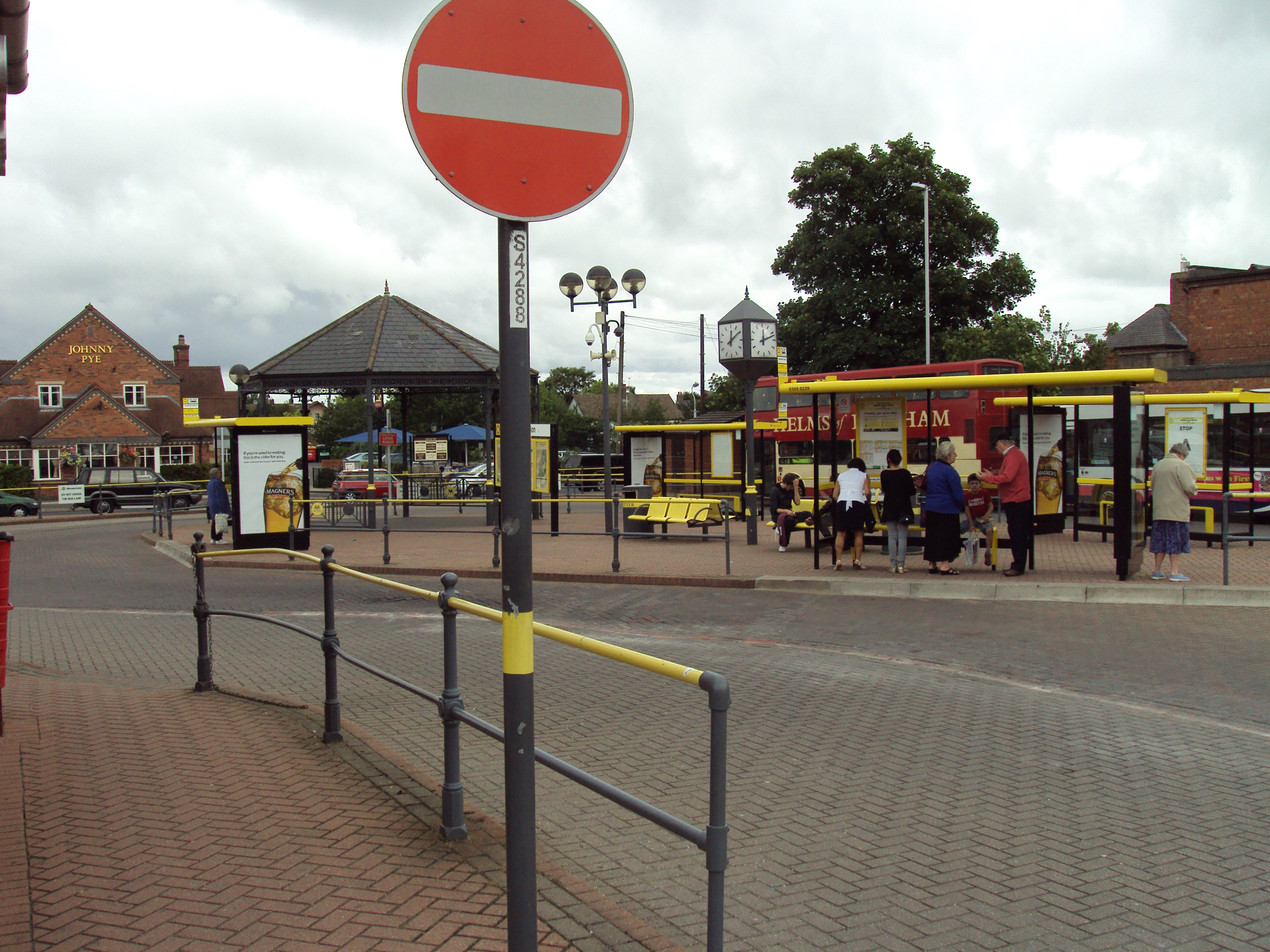 Heswall bus station off the A540 Telegraph Road at Heswall, Wirral, England. Johnny Pye pub is in the background.